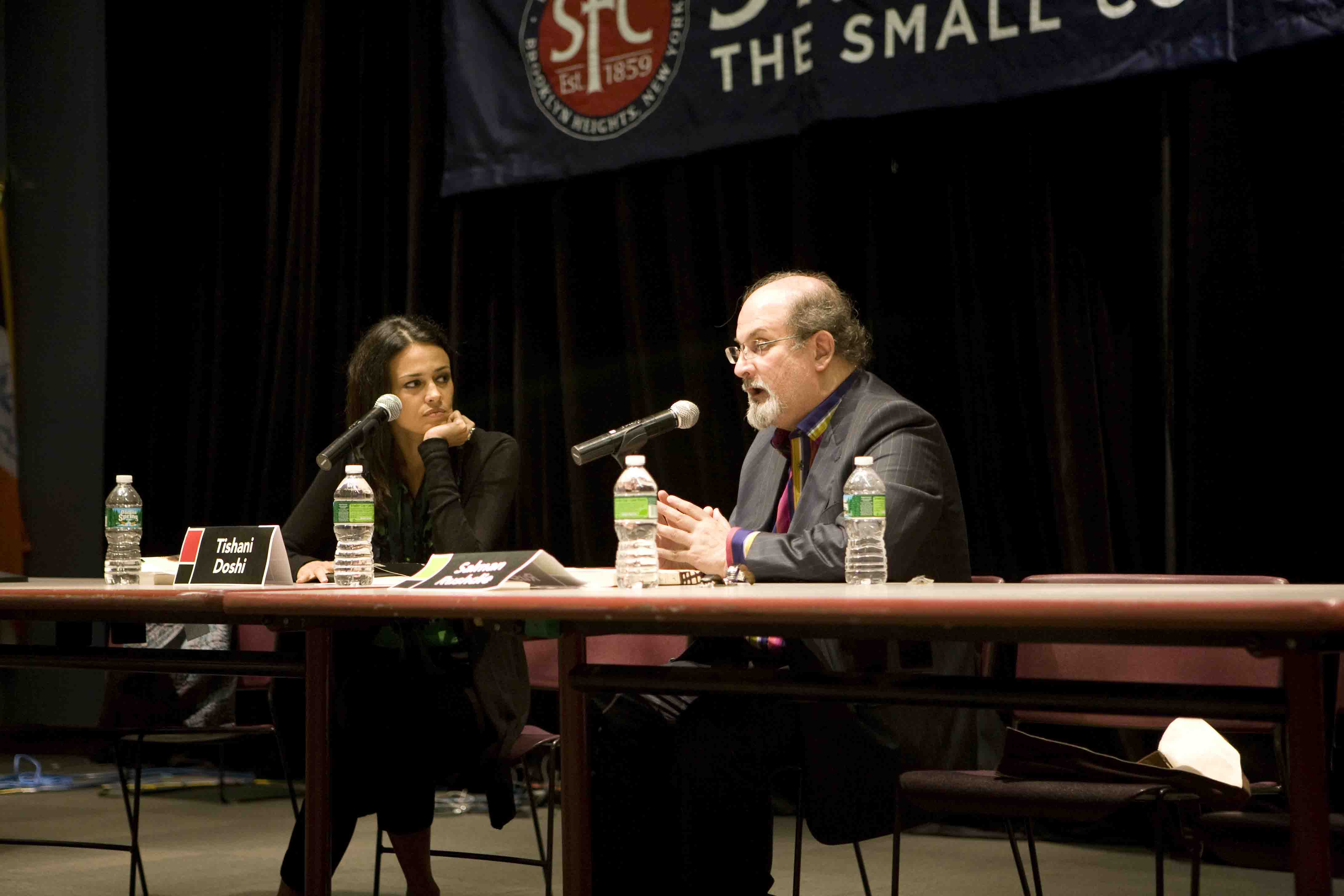 Tishani Doshi (author of The Pleasure Seekers) and Salman Rushdie (author of Satanic Verses, Midnight's Children, Grimus, Haroun and the Sea of Stories, The Enchantress of Florence) at the Brooklyn Book Festival